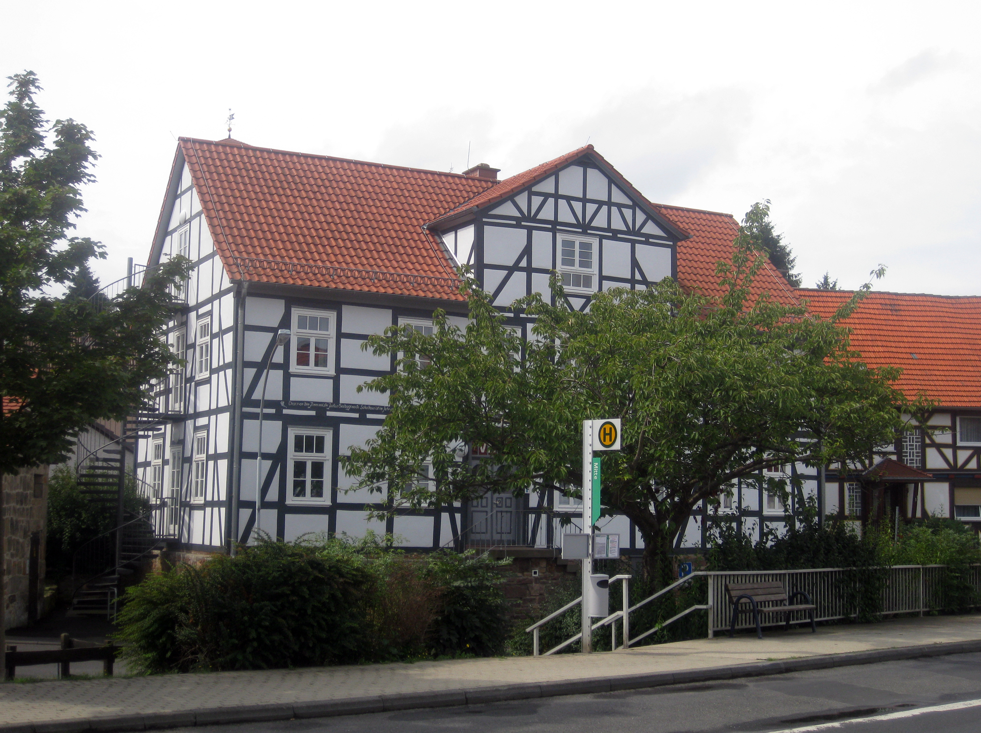 Adult education center in Lohfelden Vollmarshausen. The building was built as a school in the beginning of the 19th century